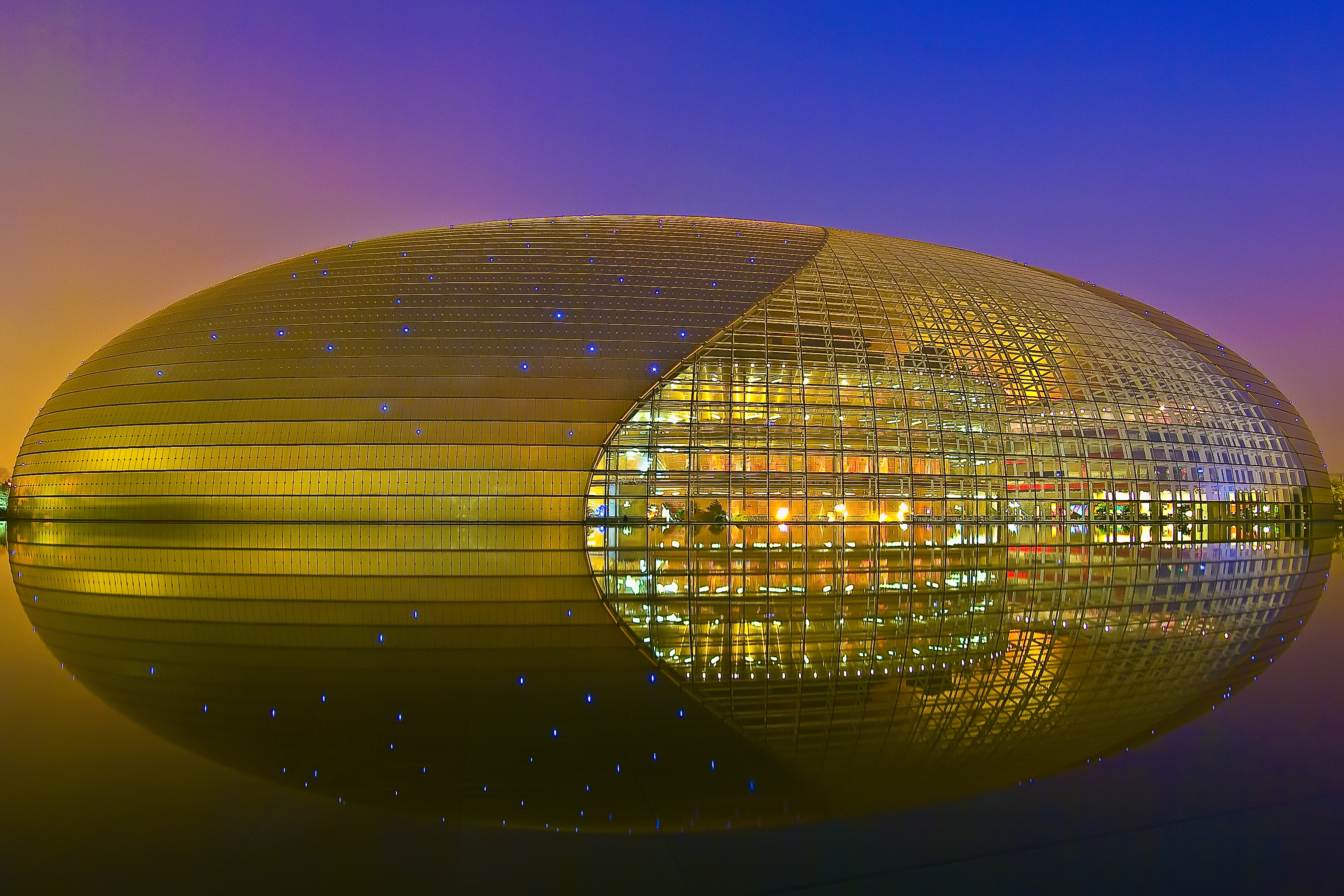 National Theatre "The Egg", Beijing, It turned out to be a nice shot even tough it was very late at night. I really like its symmetry. Three-exposure HDR (photomatix). The high pollution in Beijing generate these wonderful colours at sunset. The National Centre for the Performing Arts (NCPA) (Chinese: 国家大剧院; literally: National Grand Theatre), and colloquially described as The Egg, is an opera house in Beijing, People's Republic of China. The Centre, an ellipsoid dome of titanium and glass surrounded by an artificial lake, seats 5,452 people in three halls and is almost 12,000 m² in size. It was designed by French architect Paul Andreu. Construction started in December 2001 and the inaugural concert was held in December 2007.Location: Beijing